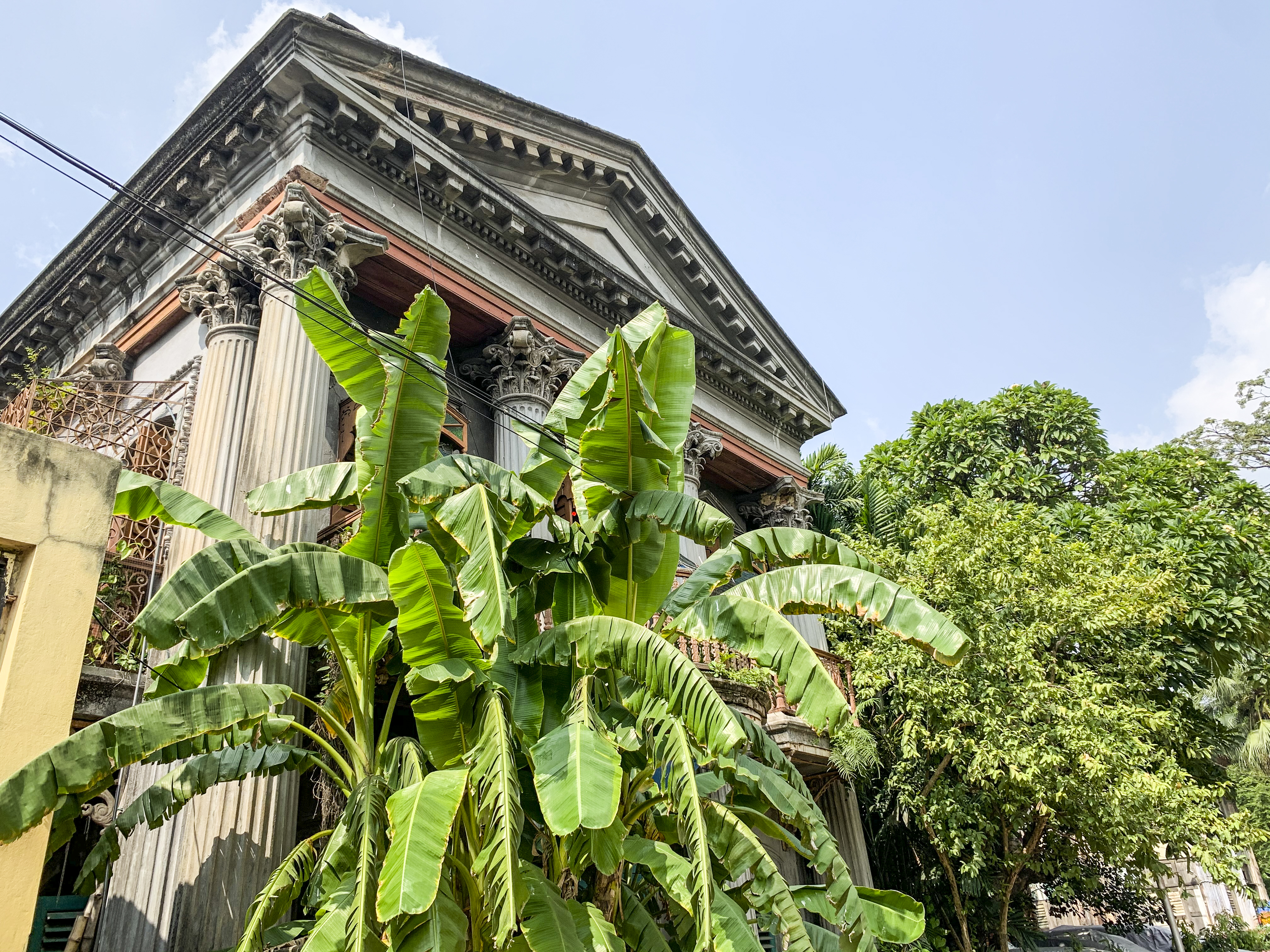 House of Mitra family in Shyampukur Street in Kolkata.